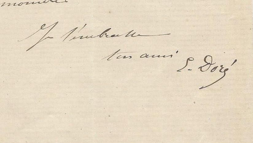 Signature of Gustave Doré